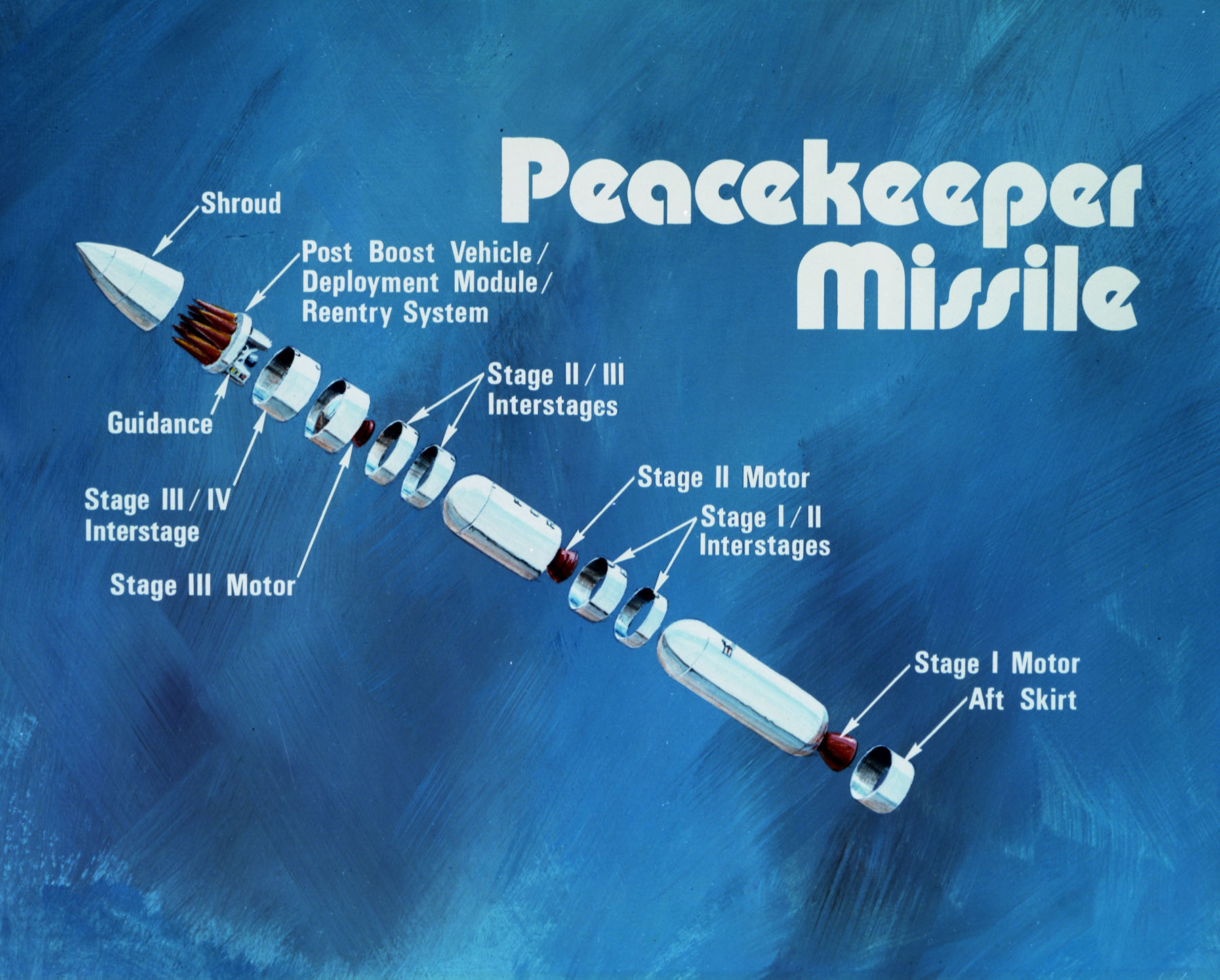 Ilustration of a Peacekeeper